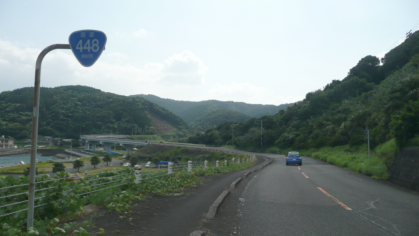 National Route 448 (Miyanoura, Kushima City, Miyazaki, Japan)